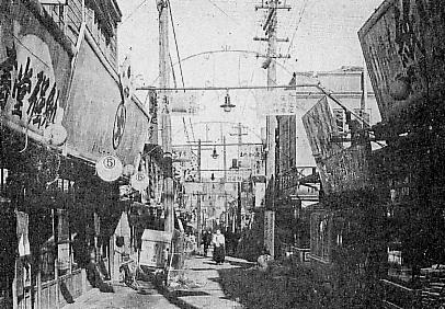 Meiji-Cho in Keijo(present-day "Myeongdong")